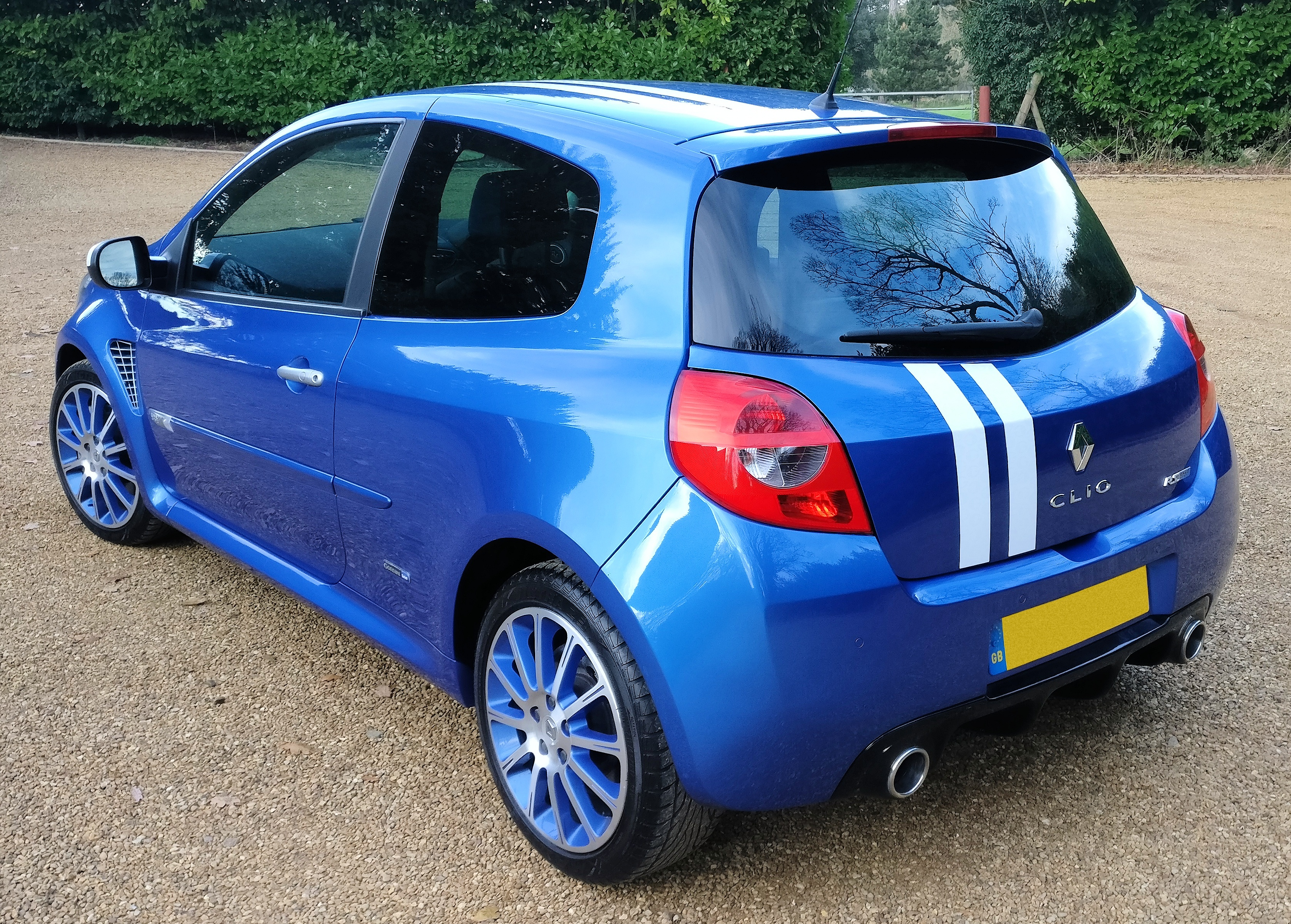 2010 Renault Clio RS Gordini